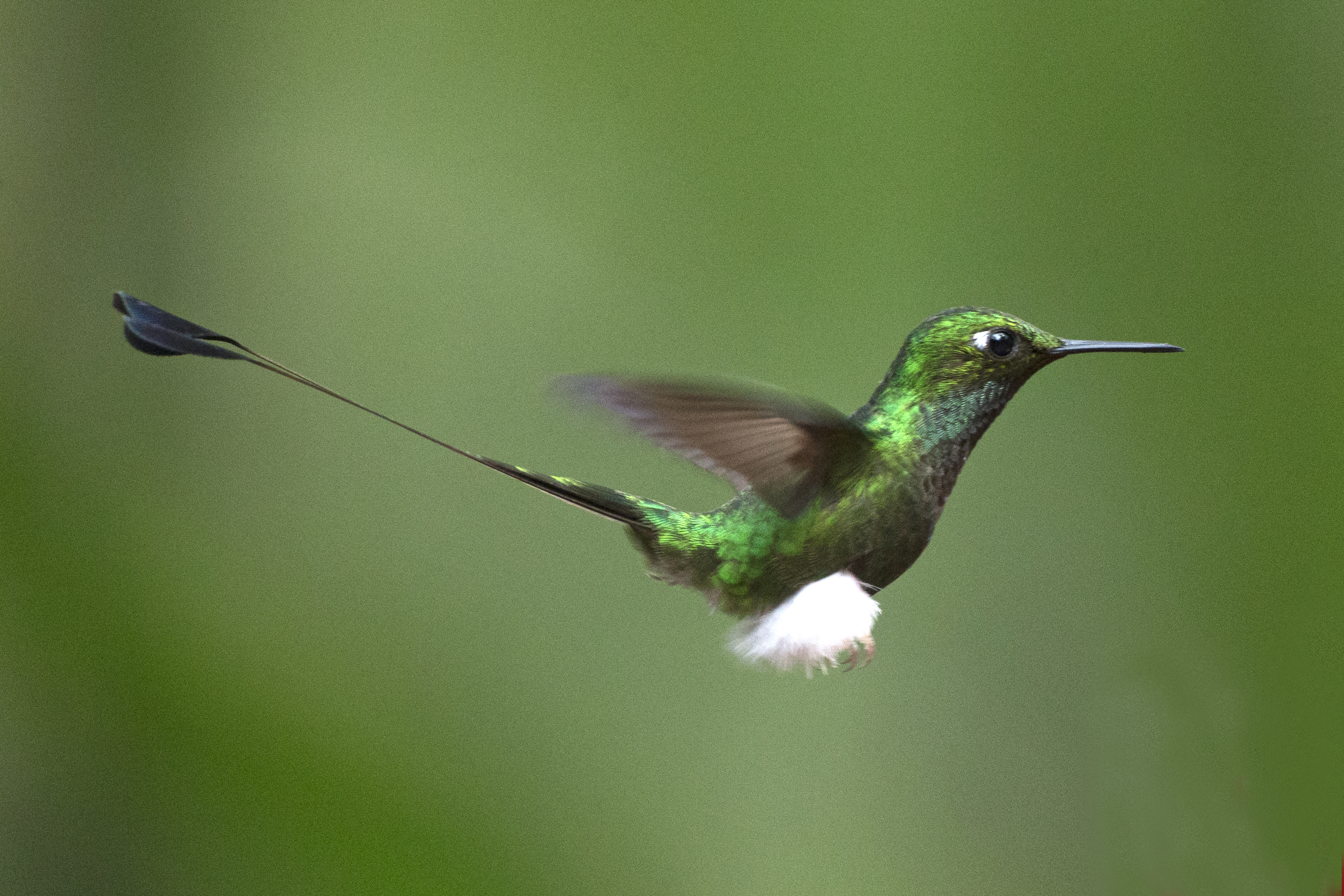 Booted Racket-tail Ocreatus underwoodii Ocreatus underwoodii melanantherus Tandayapa (north west of Quito) Ecuador 10th. August 2015 CF2P3541